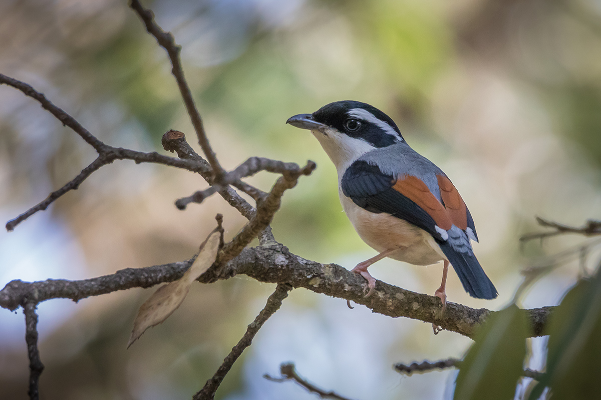 Pangot India